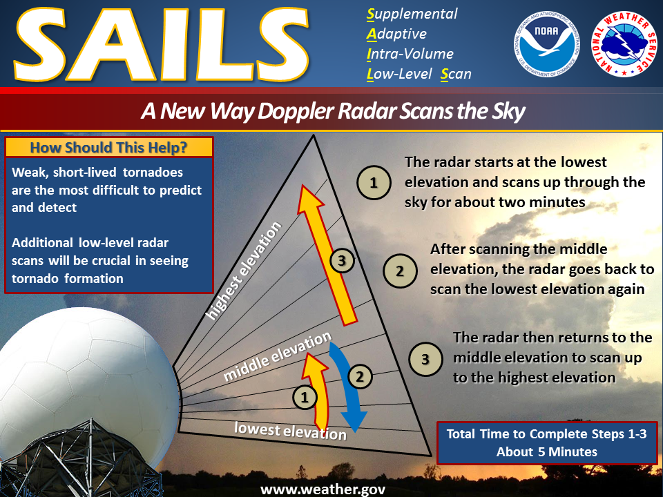 An improvement to the WSR-88D radar scanning strategy is called MESO-SAILS, Multiple Elevation Scan Option-SAILS. It enables the radar to provide up to four low-level views of the storm within a five minute period. This is done by coming back down regularly to the lowest scanned elevation during the course of a full vertical scans of many angles. Because of this, the forecaster can see the lowest and most important portion of the storm as quickly as every 75 seconds. That means better and faster detection of hazardous weather, ultimately leading to more advanced warnings.